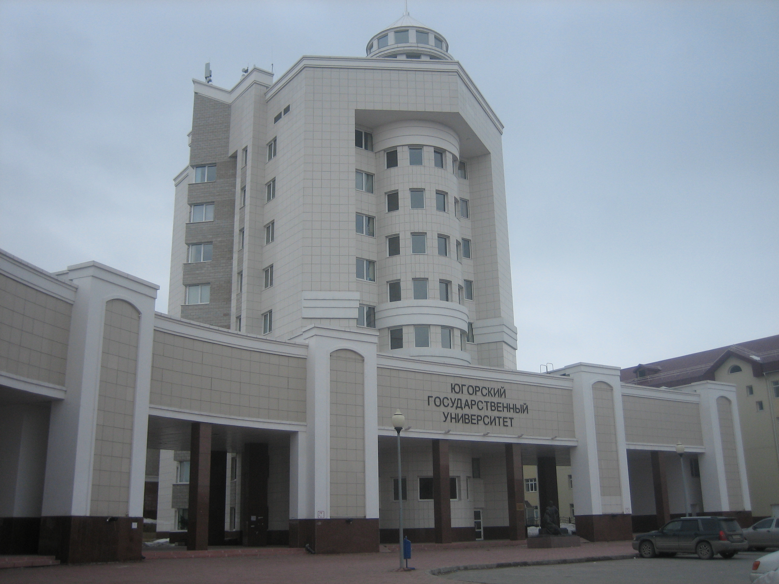 Main building of the Yugorsky State Univercity